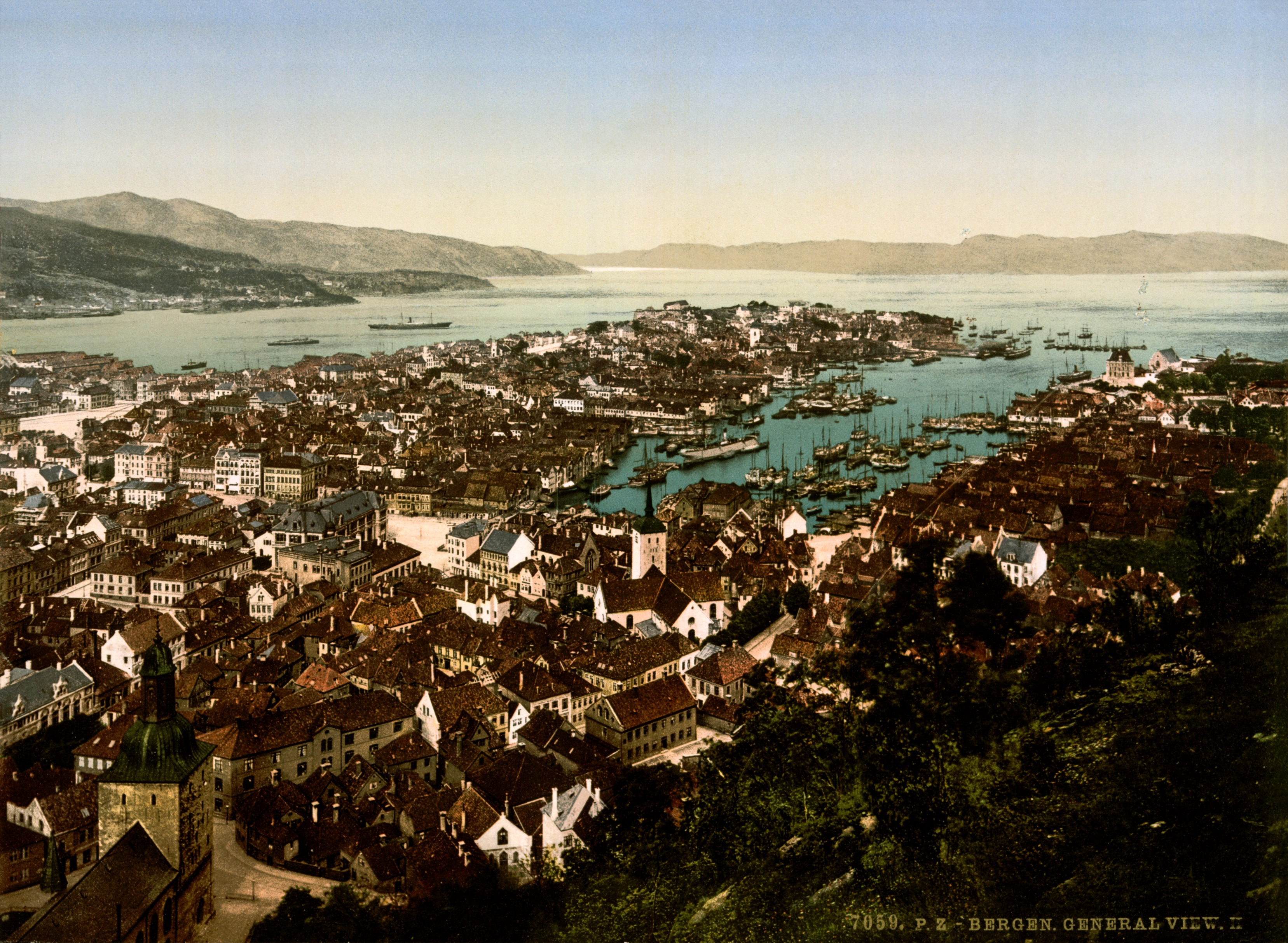 Panoramic view, II, Bergen, Norway Print no. "7059"